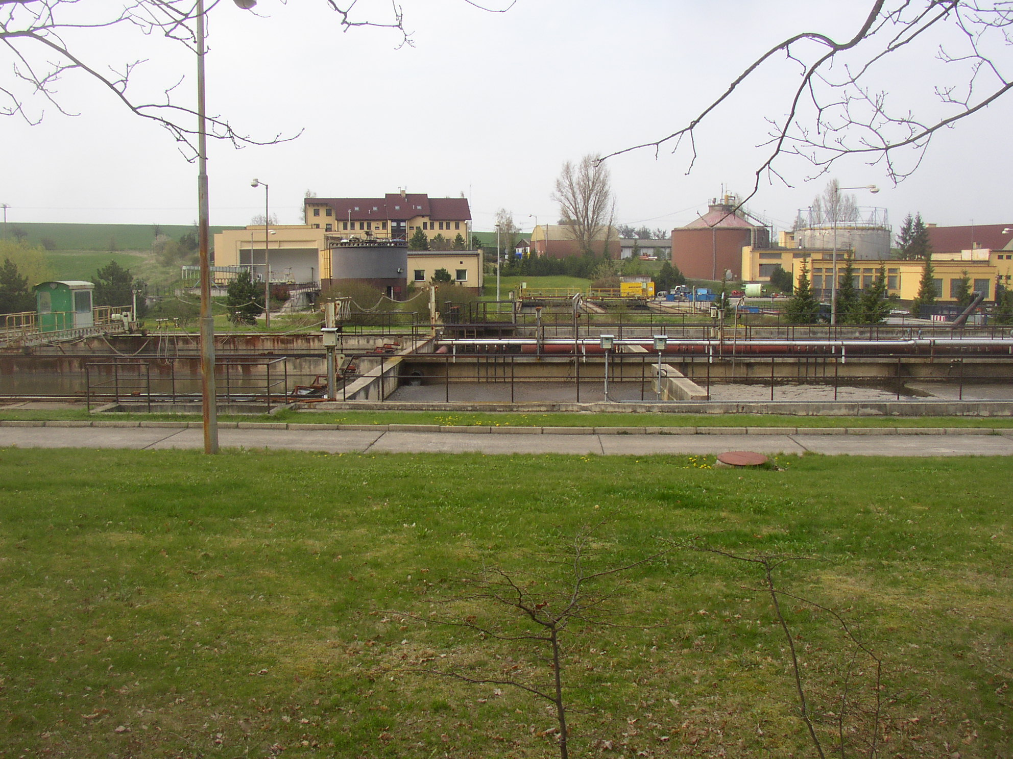 Sewage tratment plant in Kladno-Vrapice is the main wastewater treatment facility for city of Kladno, Czech Republic. A view from the south.